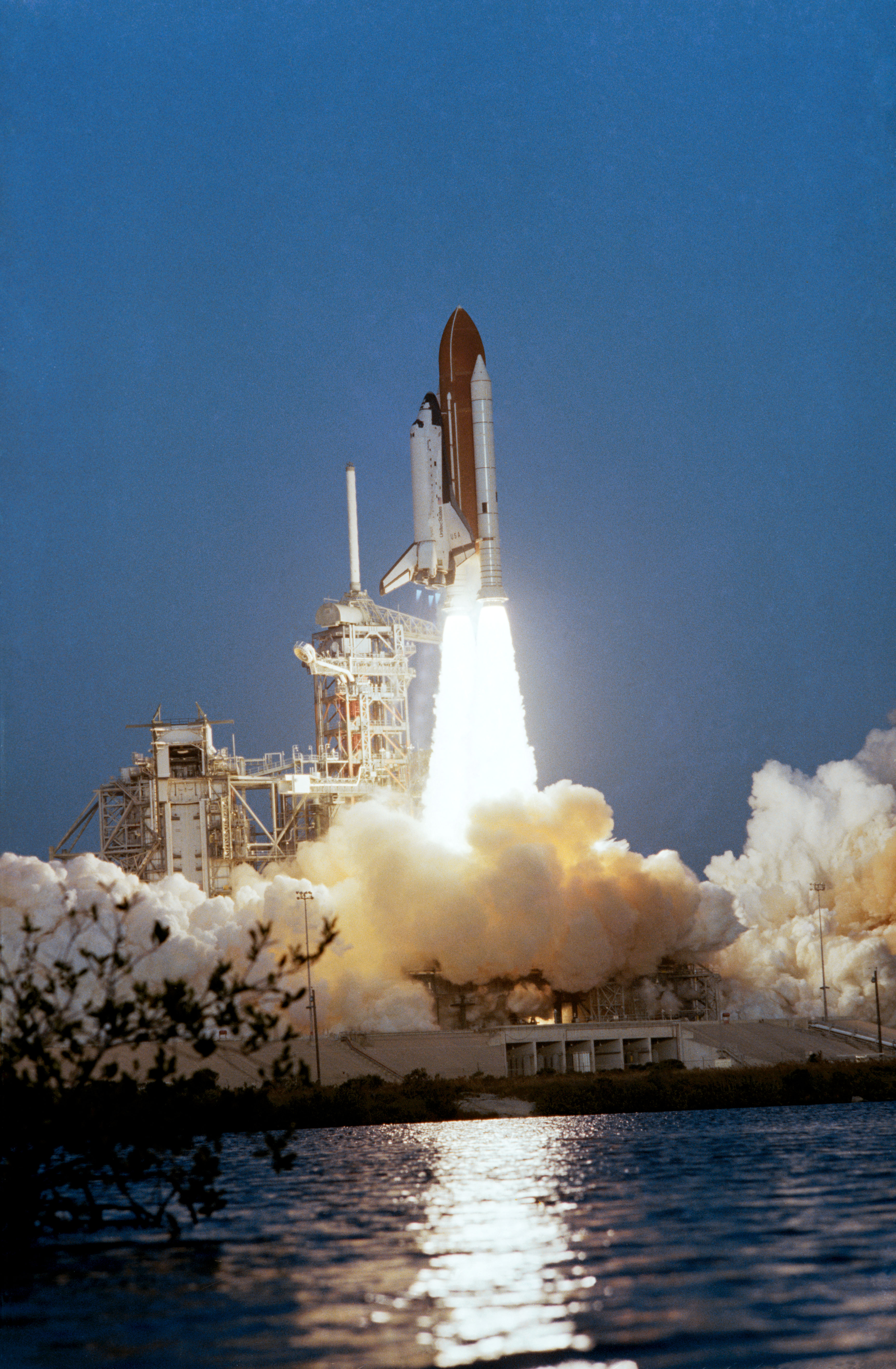 (November 11, 1982) A view of the Space Shuttle Columbia's launch for the STS-5 mission on November 11, 1982. This was Columbia's first operational mission. Image # : S82-39532